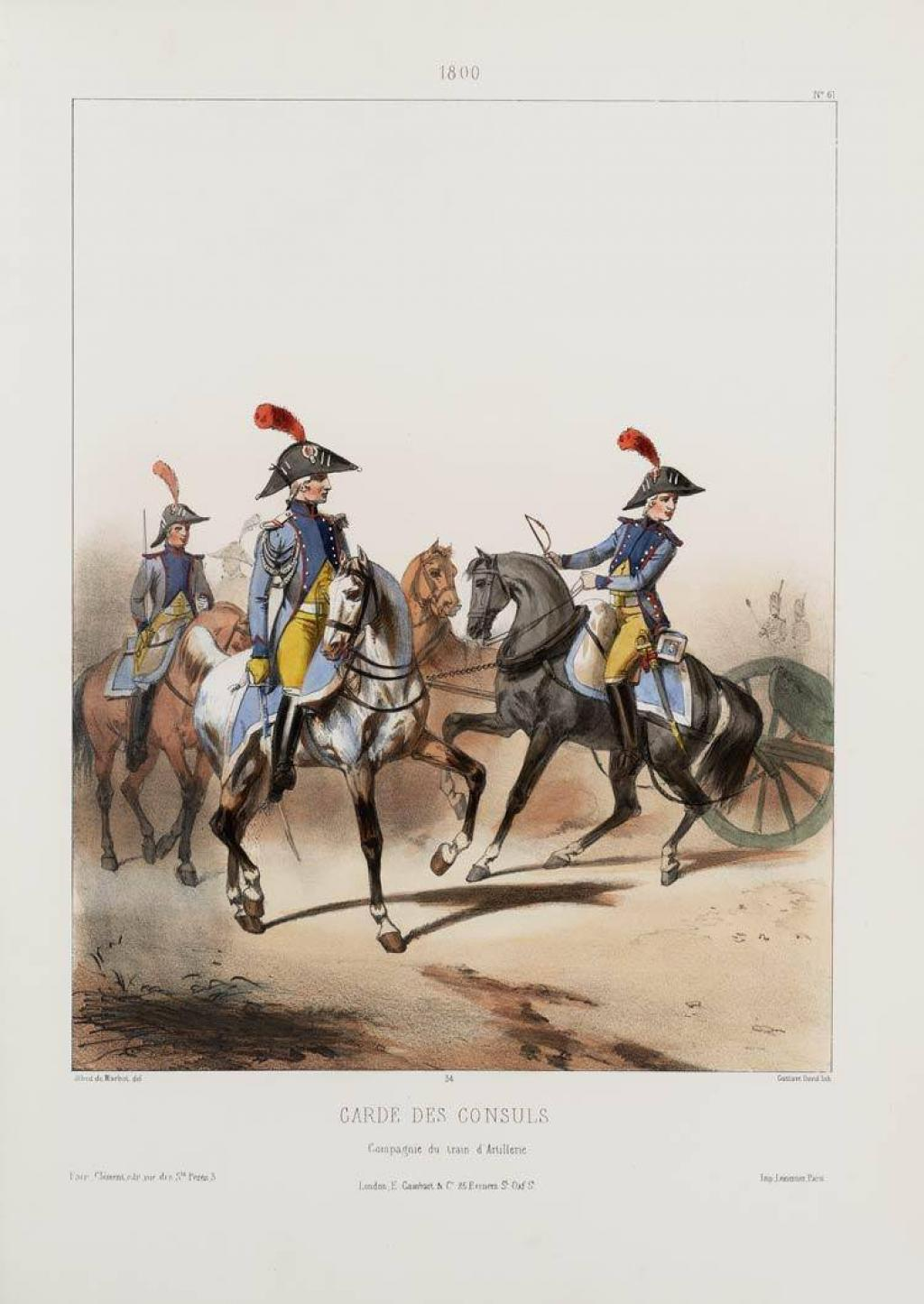 Lithography by French artist Alfred de Marbot (1812-1865)